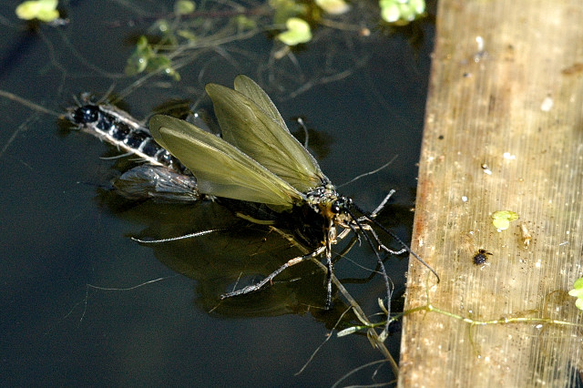 Picture taken in Commanster, Belgian High Ardennes . Species: Parachiona picicornis emerging